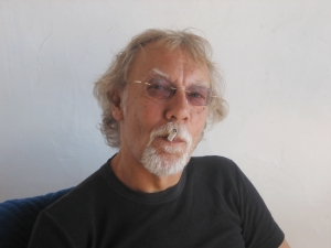 Georg Meier